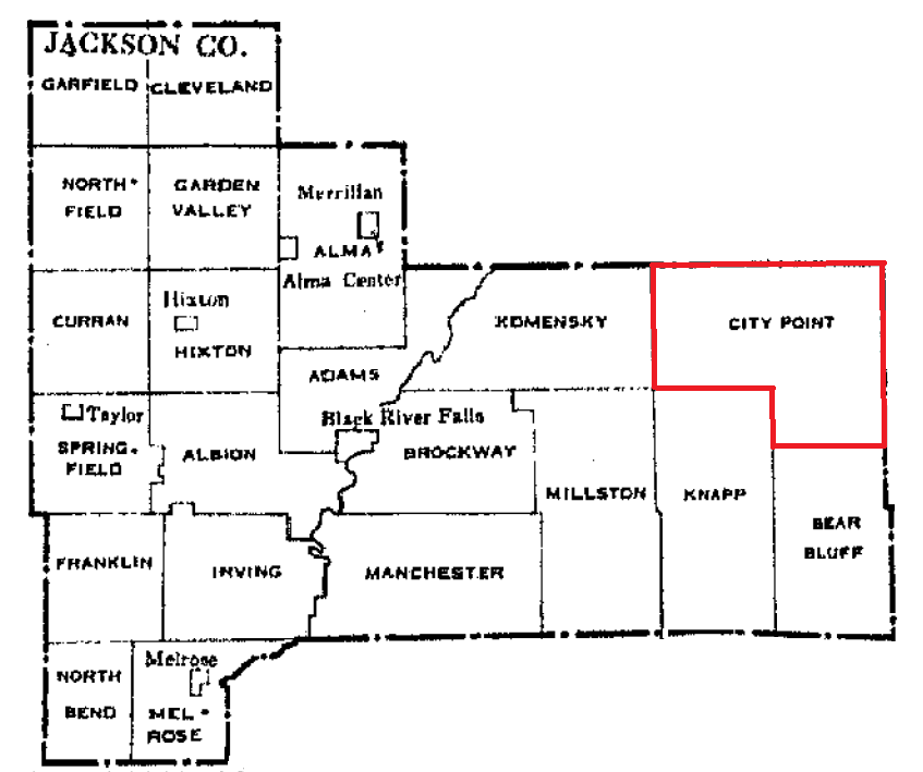 Map adapted from File:Jackson County Wisconsin townships from 1960 Census.png to highlight City Point, township.